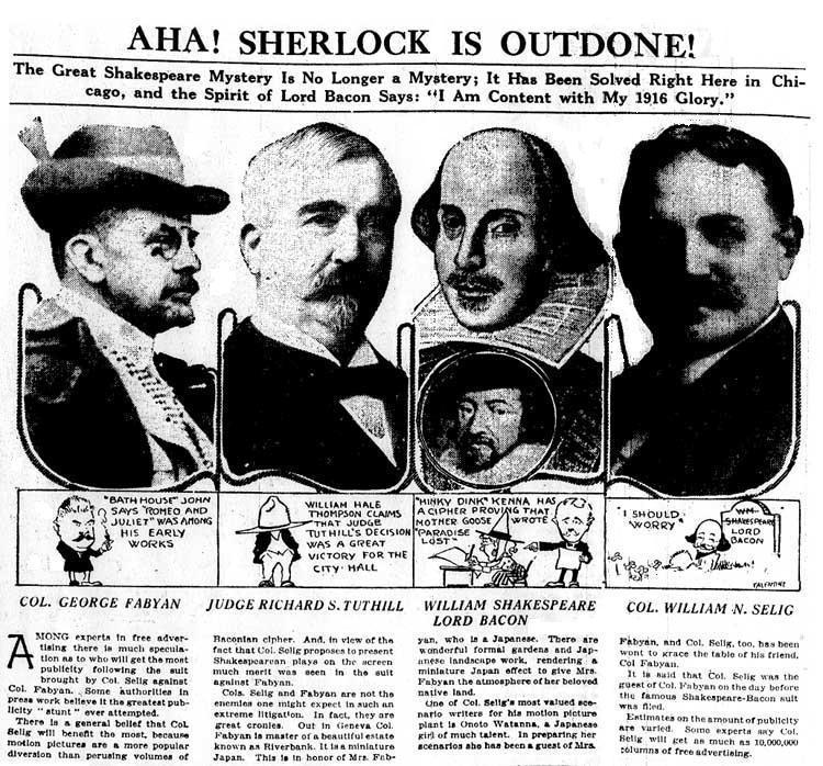 Image for article on trial of Shakespeare's authorship. Cartoons satirize Chicago politicians "Bathhouse" John Coughlin, Michael Kenna and William Hale Thompson